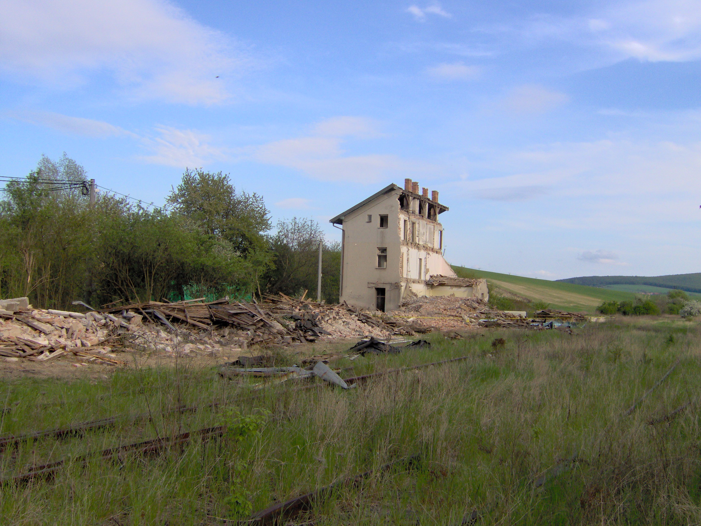 Former railway station Ždánice, Hodonín District, Czech Republic